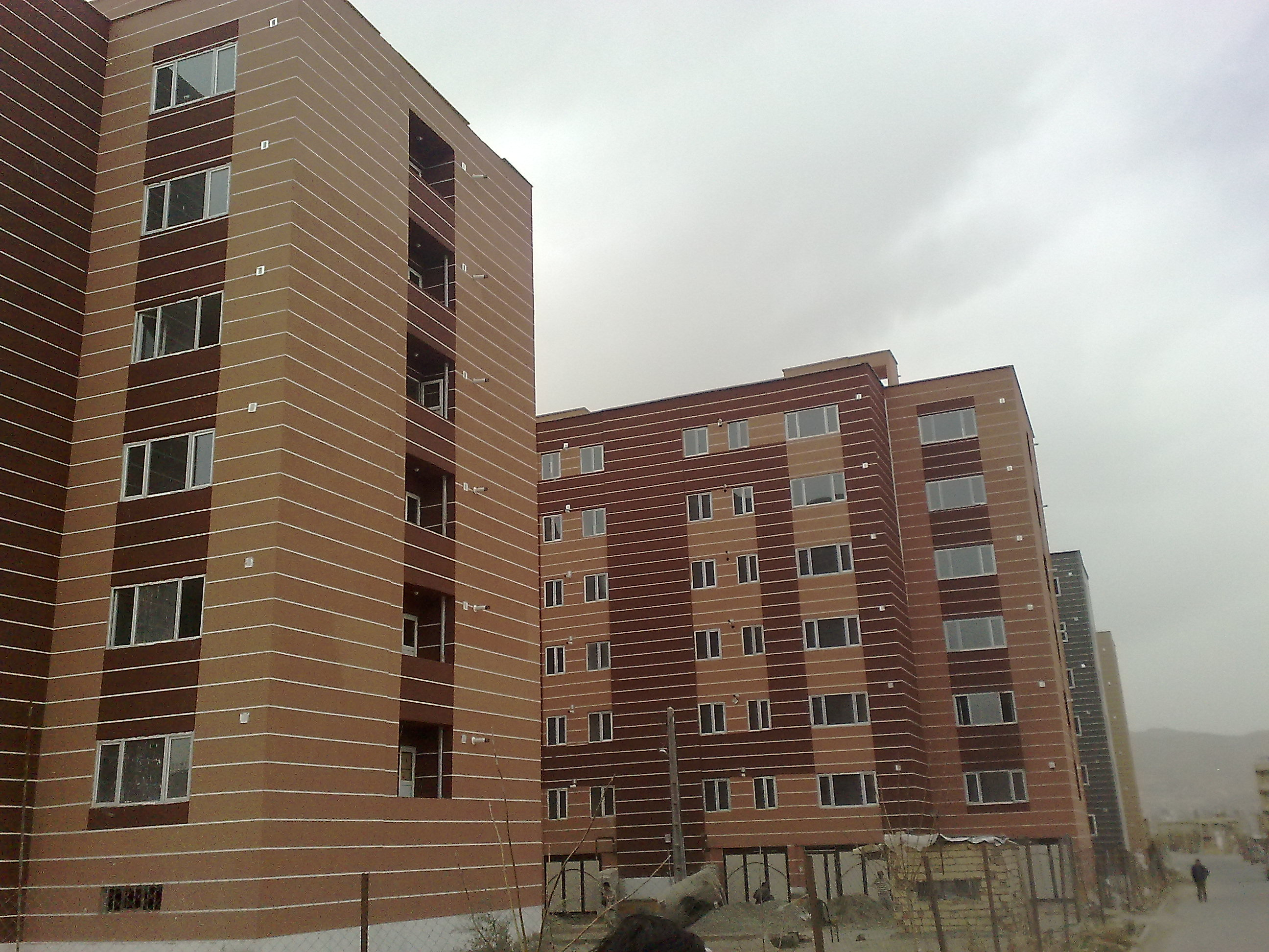 Maskane mehr in Saqqez